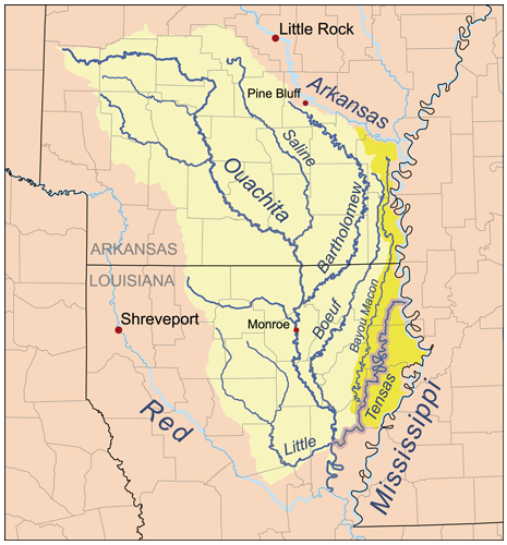 Map of the Tensas River highlighted within the Ouachita River watershed. The darker yellow indicates the Tensas River watershed.